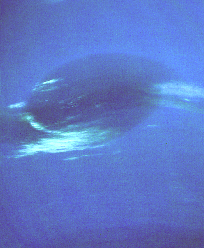 Neptune's Great Dark Spot, a large anticyclonic storm similar to Jupiter's Great Red Spot, observed by NASA's Voyager 2 spacecraft in 1989. This photograph shows the last face on view of the Great Dark Spot that Voyager will make with the narrow angle camera. The image was shuttered 45 hours before closest approach at a distance of 2.8 million kilometers (1.7 million miles). The smallest structures that can be seen are of an order of 50 kilometers (31 miles). The image shows feathery white clouds that overlie the boundary of the dark and light blue regions. The pinwheel (spiral) structure of both the dark boundary and the white cirrus suggest a storm system rotating counterclockwise. Periodic small scale patterns in the white cloud, possibly waves, are short lived and do not persist from one Neptunian rotation to the next. This color composite was made from the clear and green filters of the narrow-angle camera. The Voyager Mission is conducted by JPL for NASA's Office of Space Science and Applications.